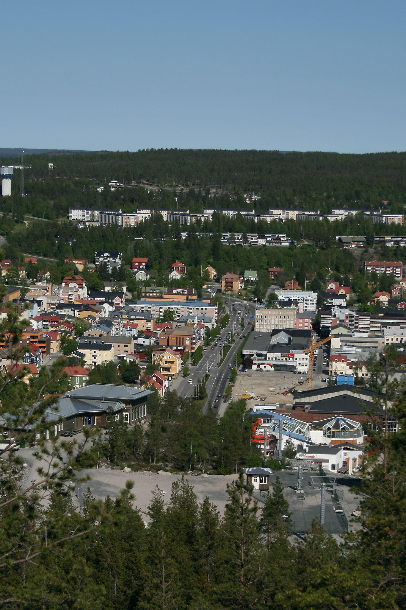 The E4 main road cutting through downtown Örnsköldsvik.